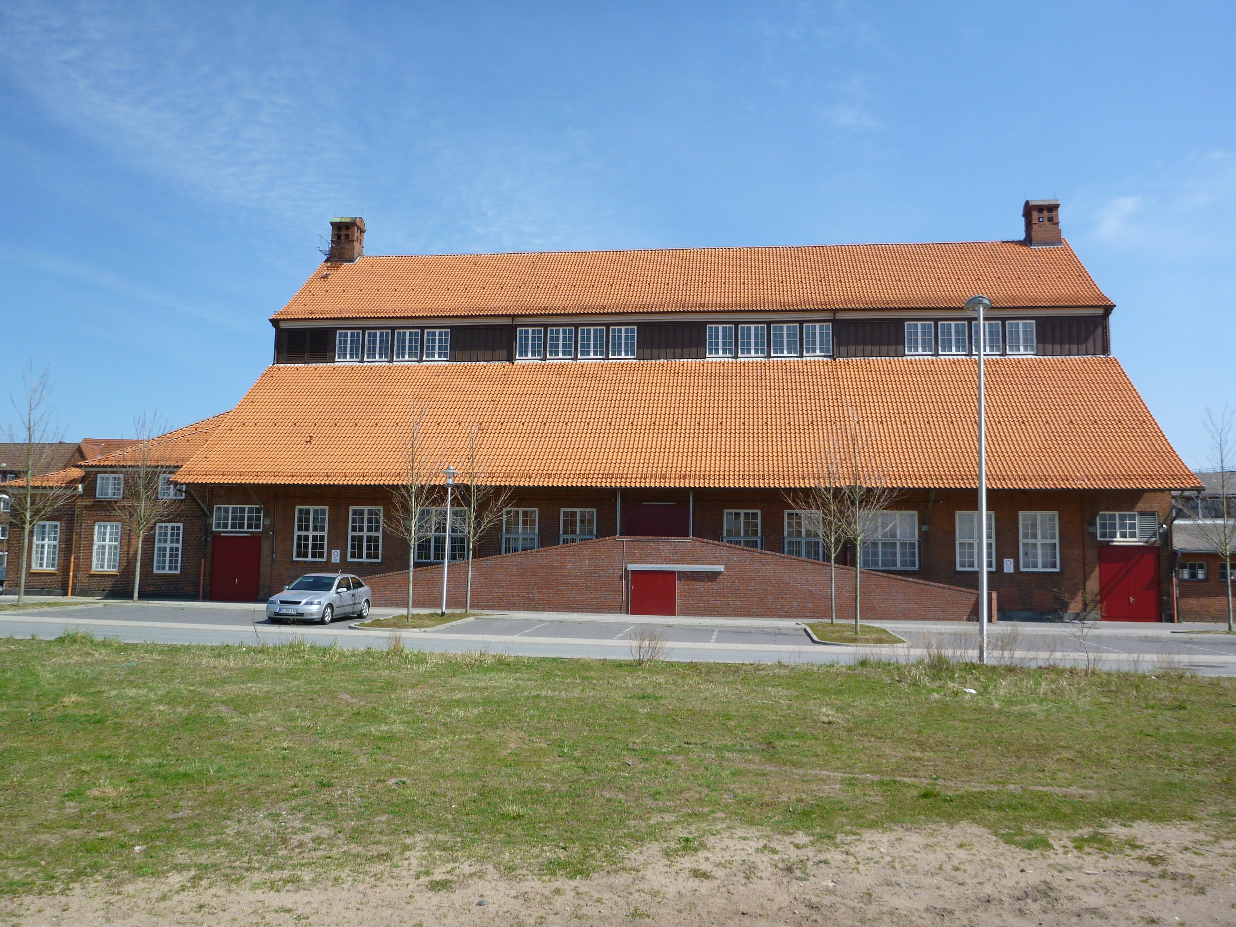 Building, preservation sites of historic interest Nordmarkhalle